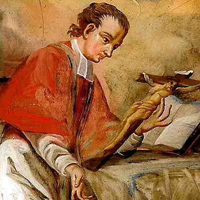 The sacred Agritsy, the first bishop Trier